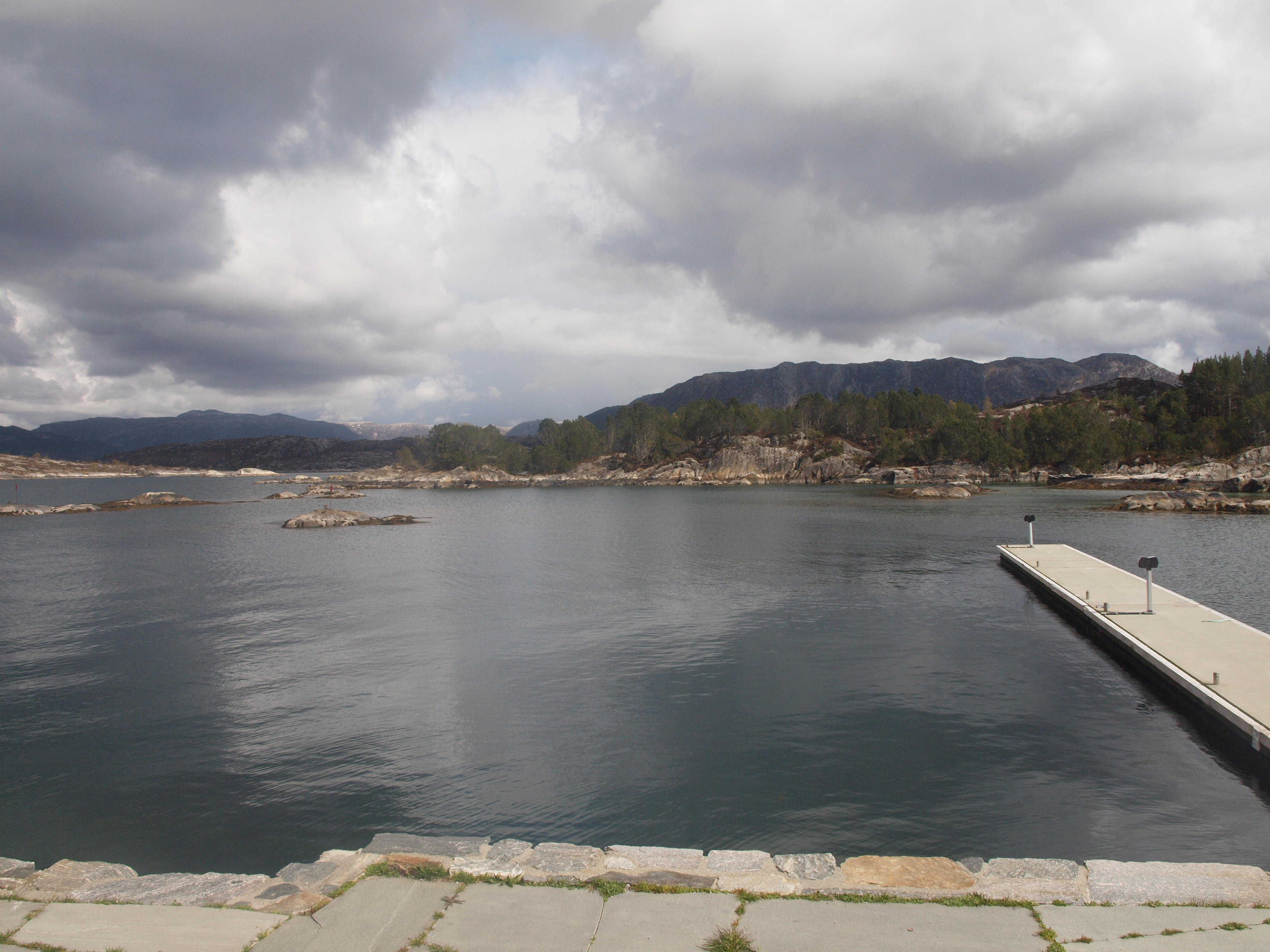 Part of Dingja marina